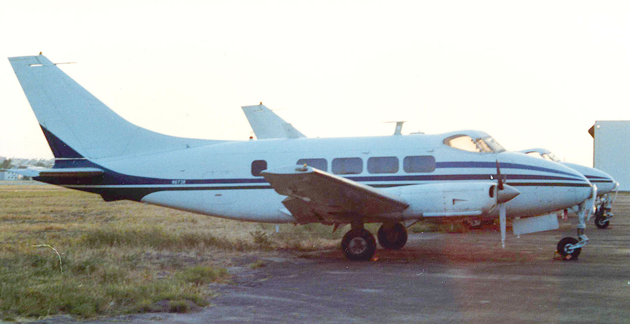 DH.104 Riley Dove N673R with taller and swept vertical fin and rudder at Long Beach airport, California.